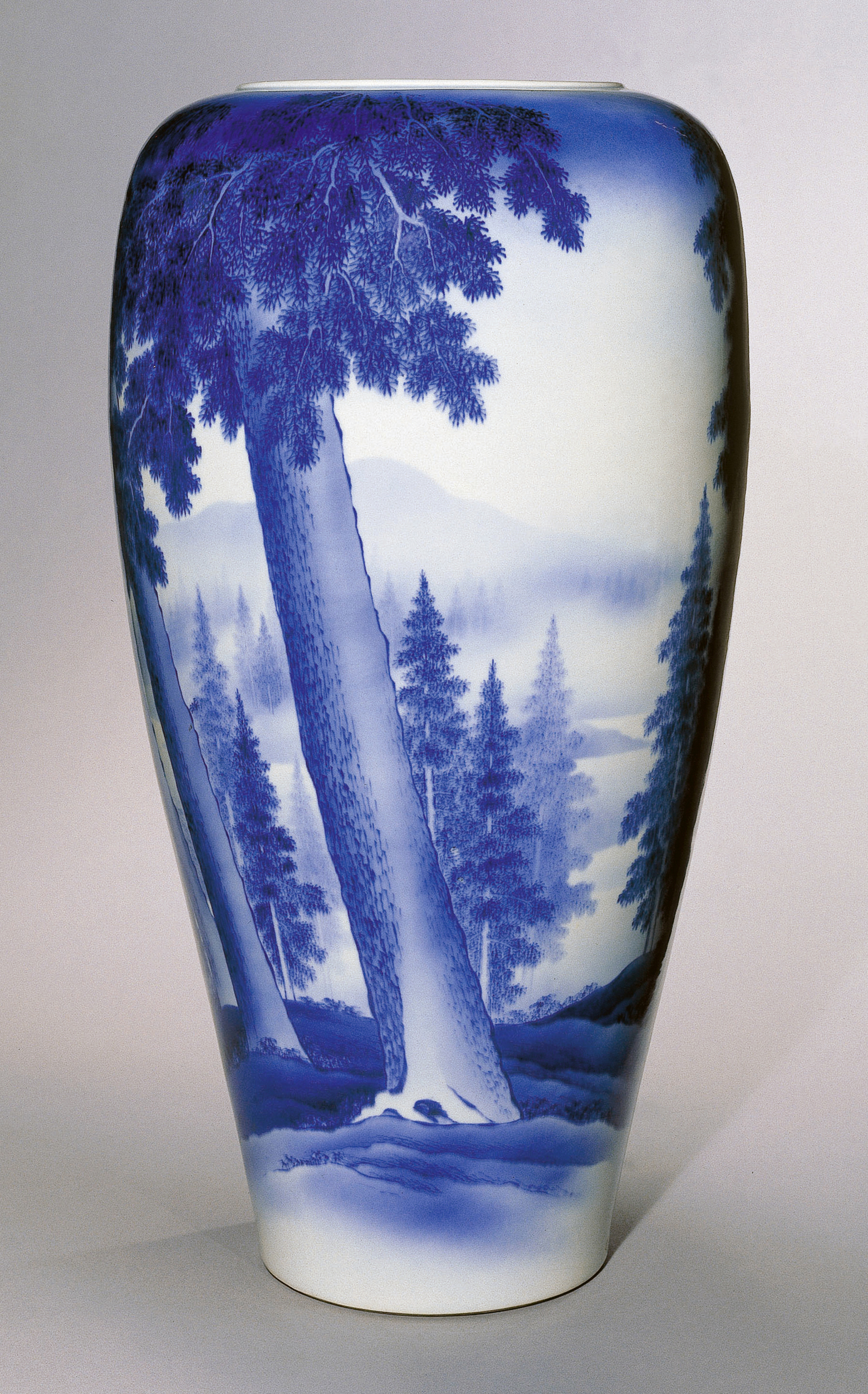 Vase from the Khalili Collection of Japanese Meiji Art. Japan circa 1910. Described at and in J. Earle, Splendors of Imperial Japan: Arts of the Meiji period from the Khalili Collection, London 2002, cat. 300, p. 297